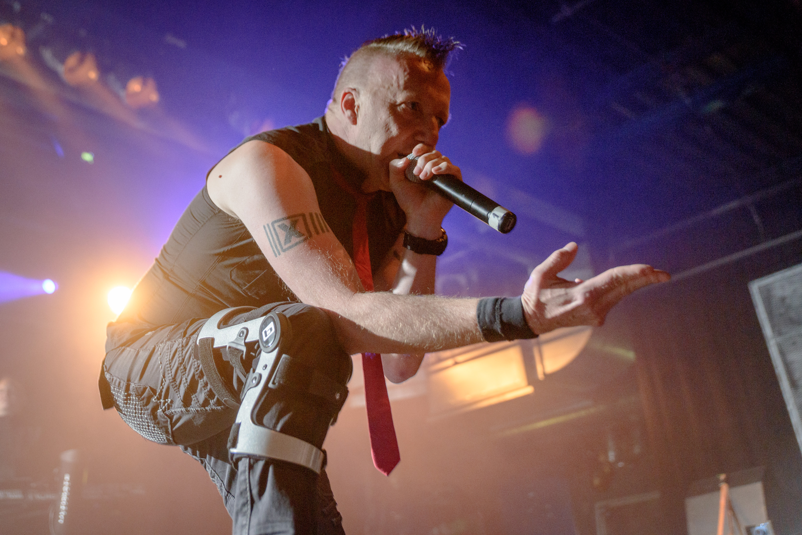 Suicide Commando Live @ Free & Easy Festival 2015